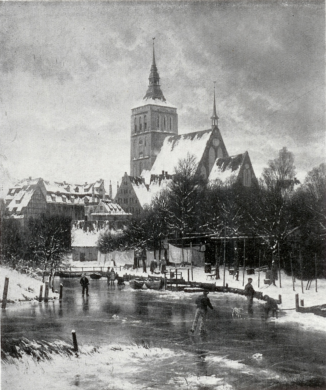 Carl Malchin (1838-1923) - Winter (Motiv from Rostock - Fischerbruch with Nikolai-Church)